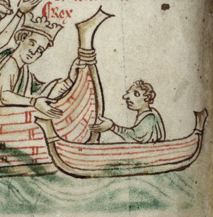 Nicholas de Moels, Senescal of Gascony, sees off King Henry III on his 1243 return voyage to England. Illustration by Matthew Paris, Chronica Majora, Royal 14 C VII f. 134v